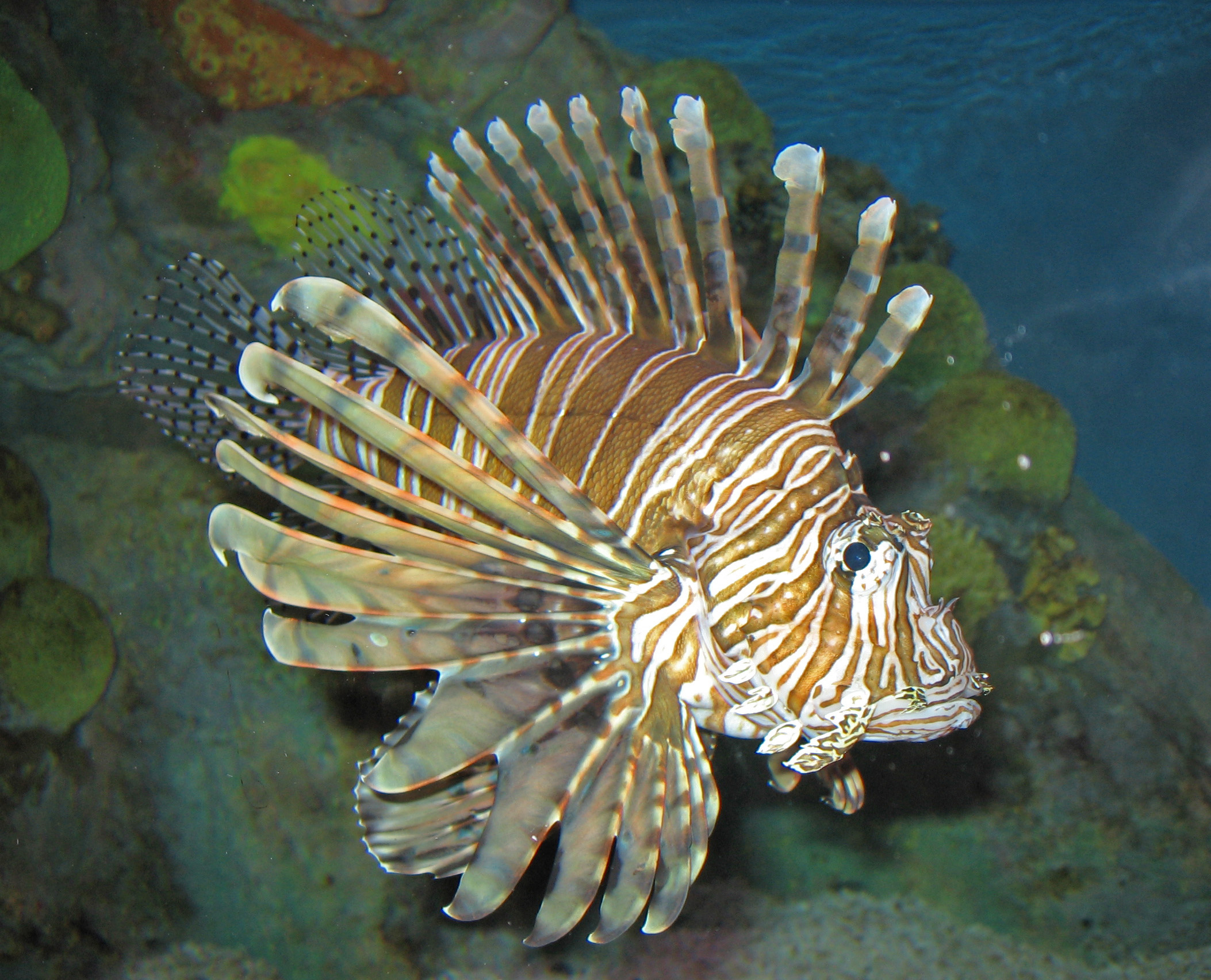 A Red Lionfish (Pterois volitans) at the New England Aquarium.